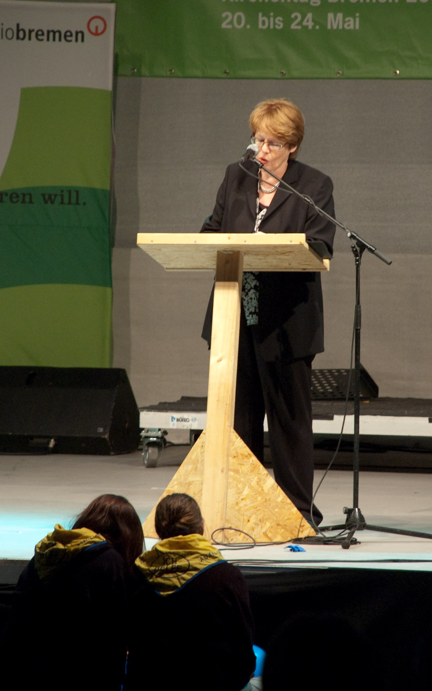 Cornelia Füllkrug-Weitzel, director of "Brot für die Welt".